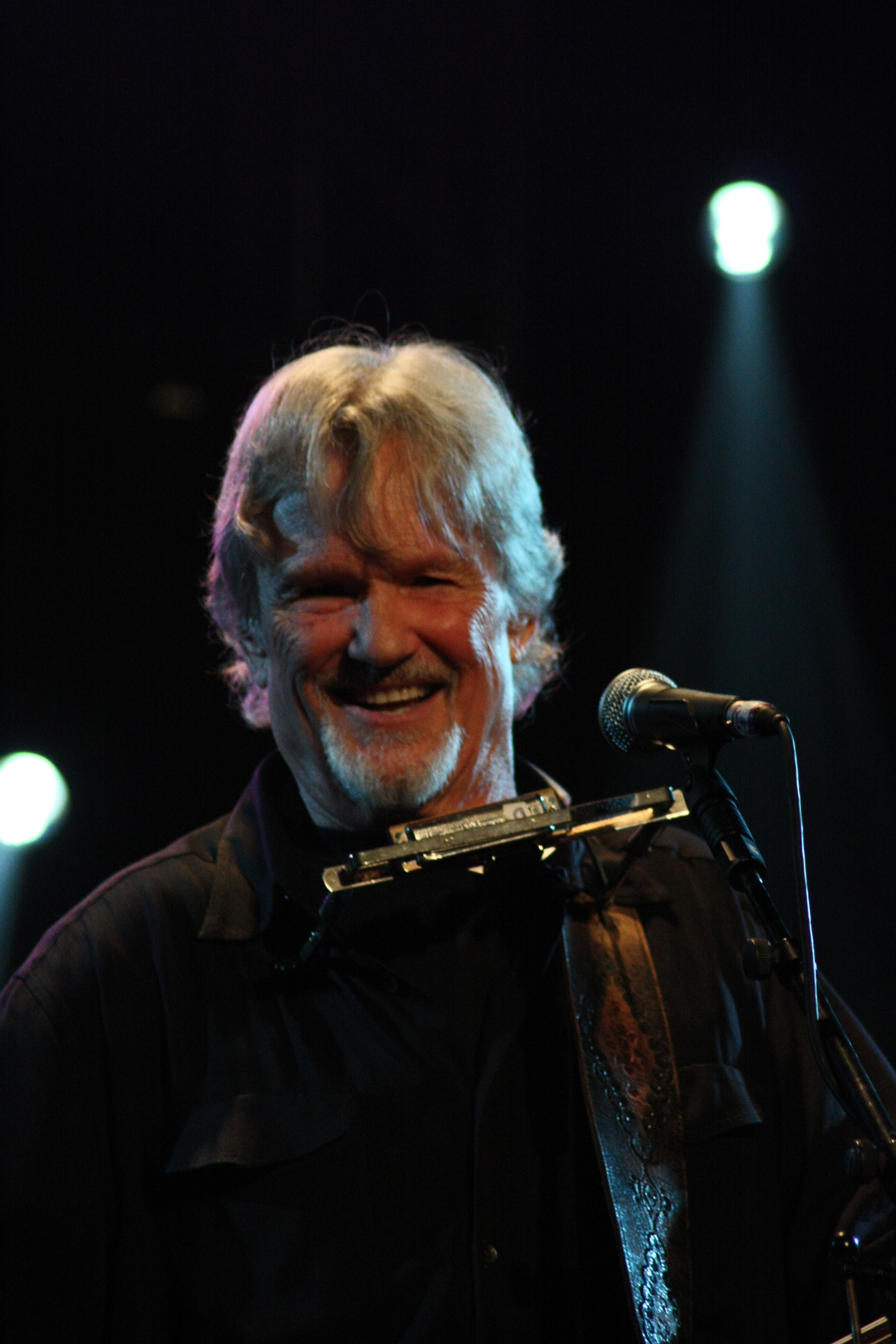 Kris Kristofferson playing at the Cambridge Folk Festival on Main Stage 1, 1st August 2010. Kristofferson played alone with vocals, guitar and harmonica for 1 hour and 10 minutes, starting at 20:40. He was the penultimate artist, following Rokia Traoré and follwed by Lúnasa.